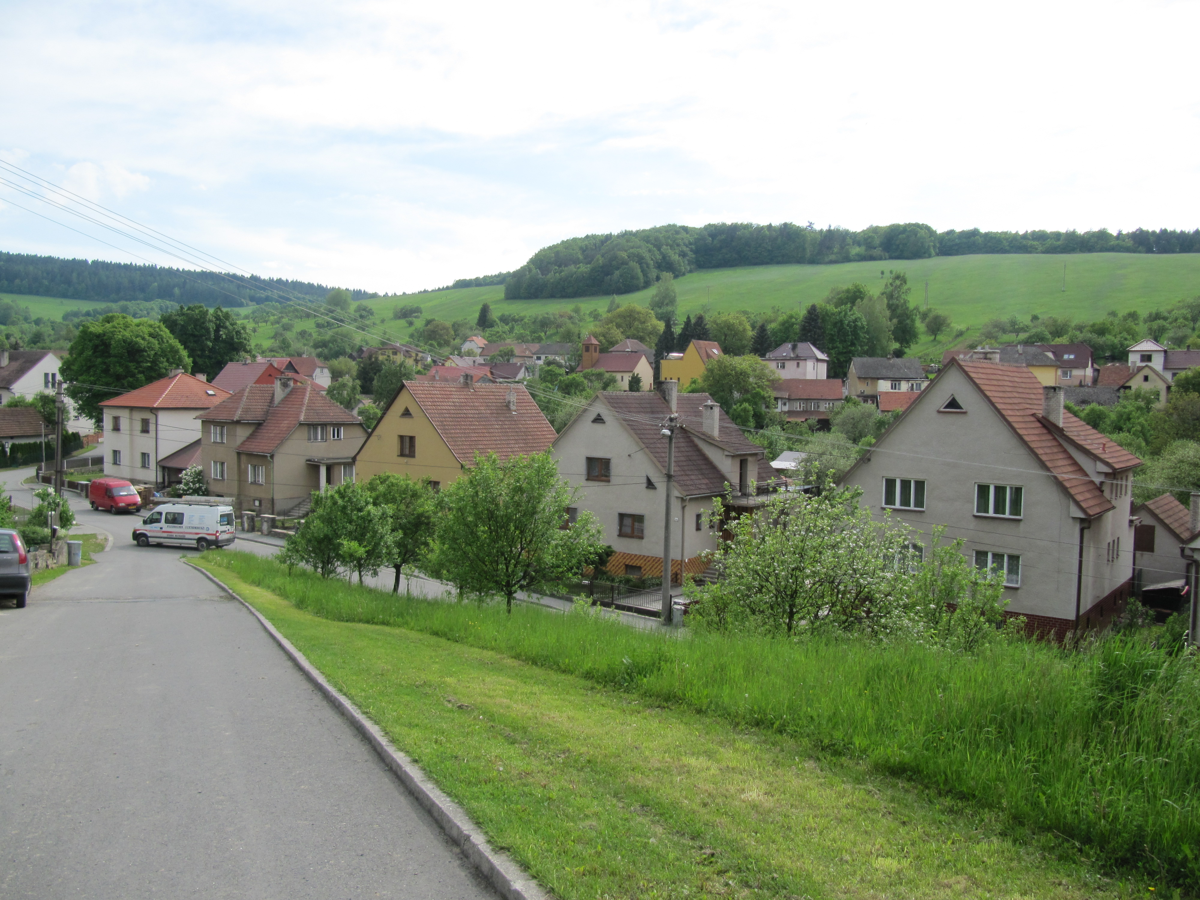 Šanov, Zlín District, Czech Republic.